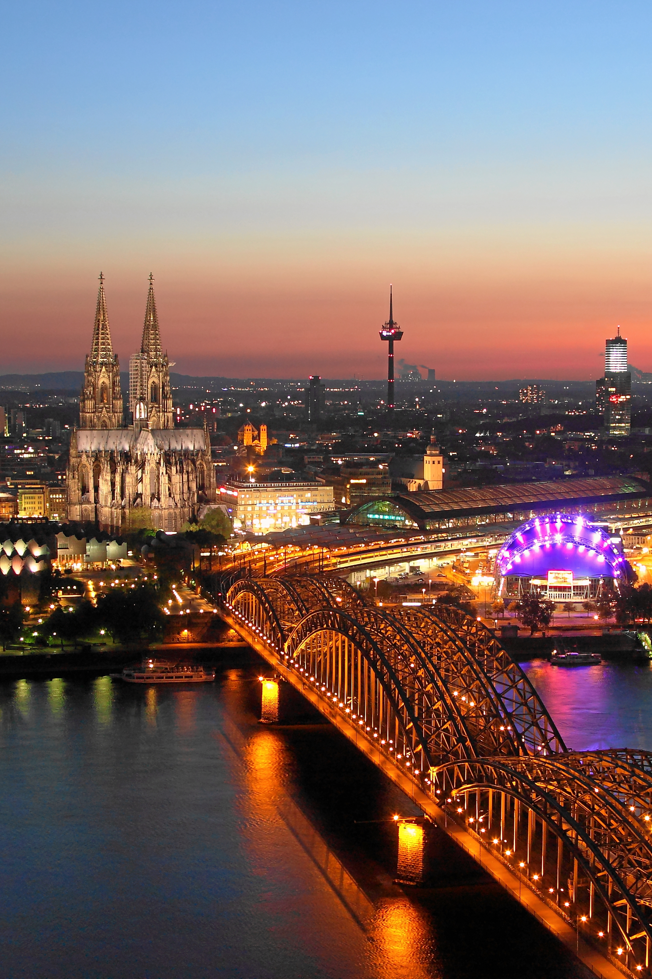 This place is a UNESCO World Heritage Site, listed as Cathédrale de Cologne.